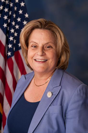 Official Congressional portrait of Congresswoman Ileana Ros-Lehtinen.